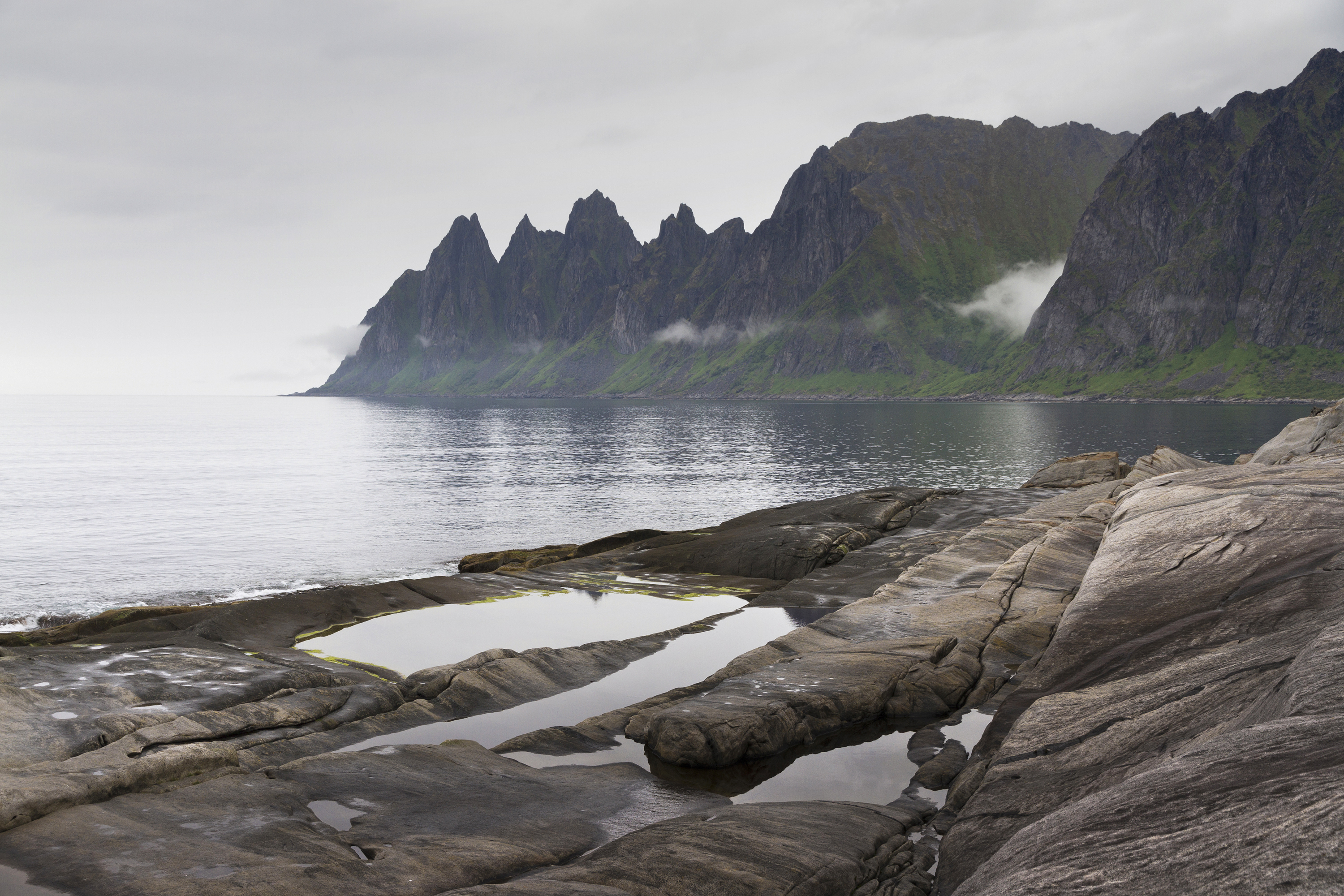 A view towards Okshornan peaks from Tungeneset in 2012 June.